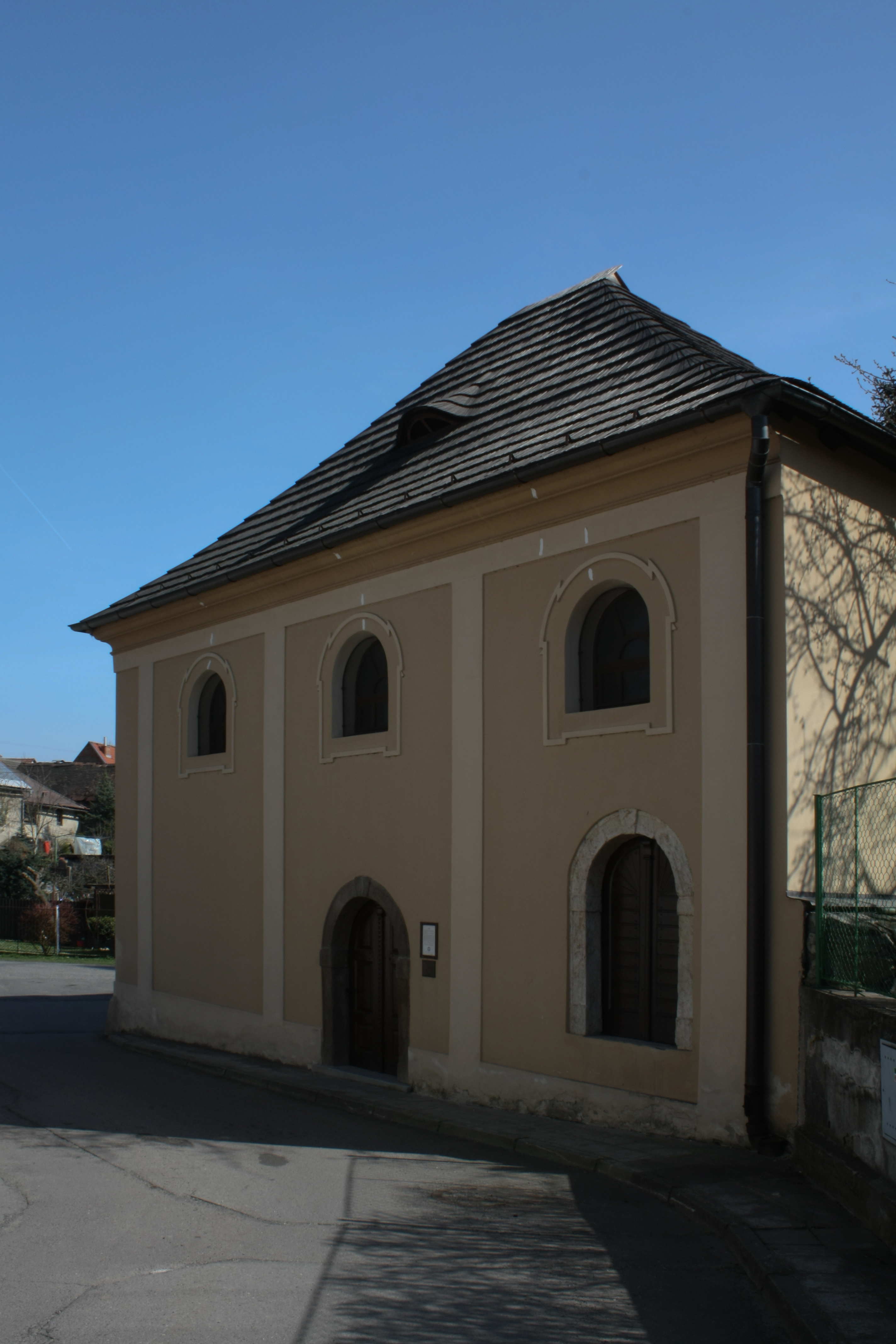 Ledeč nad Sázavou, Havlíčkův Brod District, Czech Republic Object location49° 41′ 46″ N, 15° 16′ 30″ E